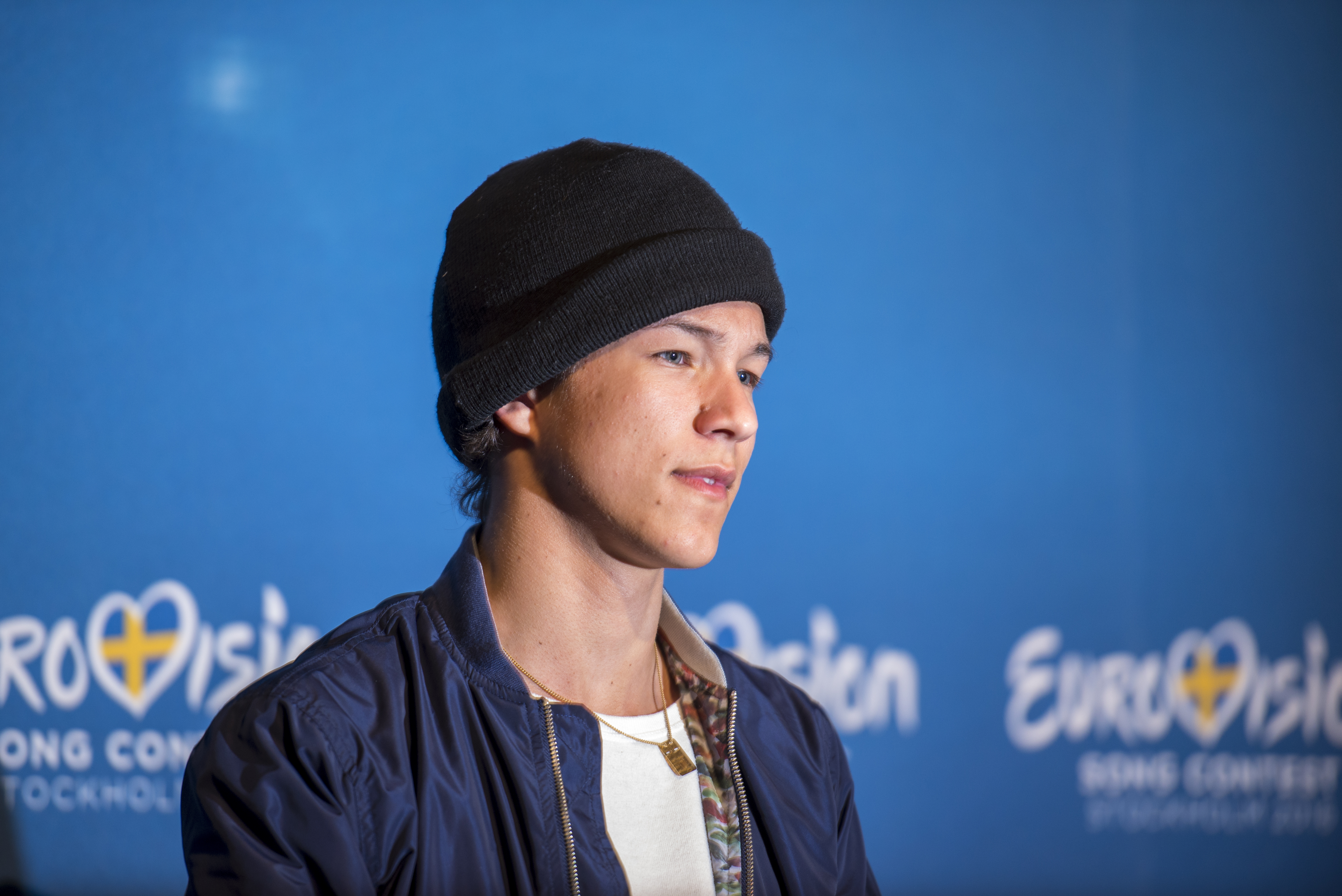 Frans at a Meet & Greet during the Eurovision Song Contest 2016 in Stockholm. (Help translate this text)